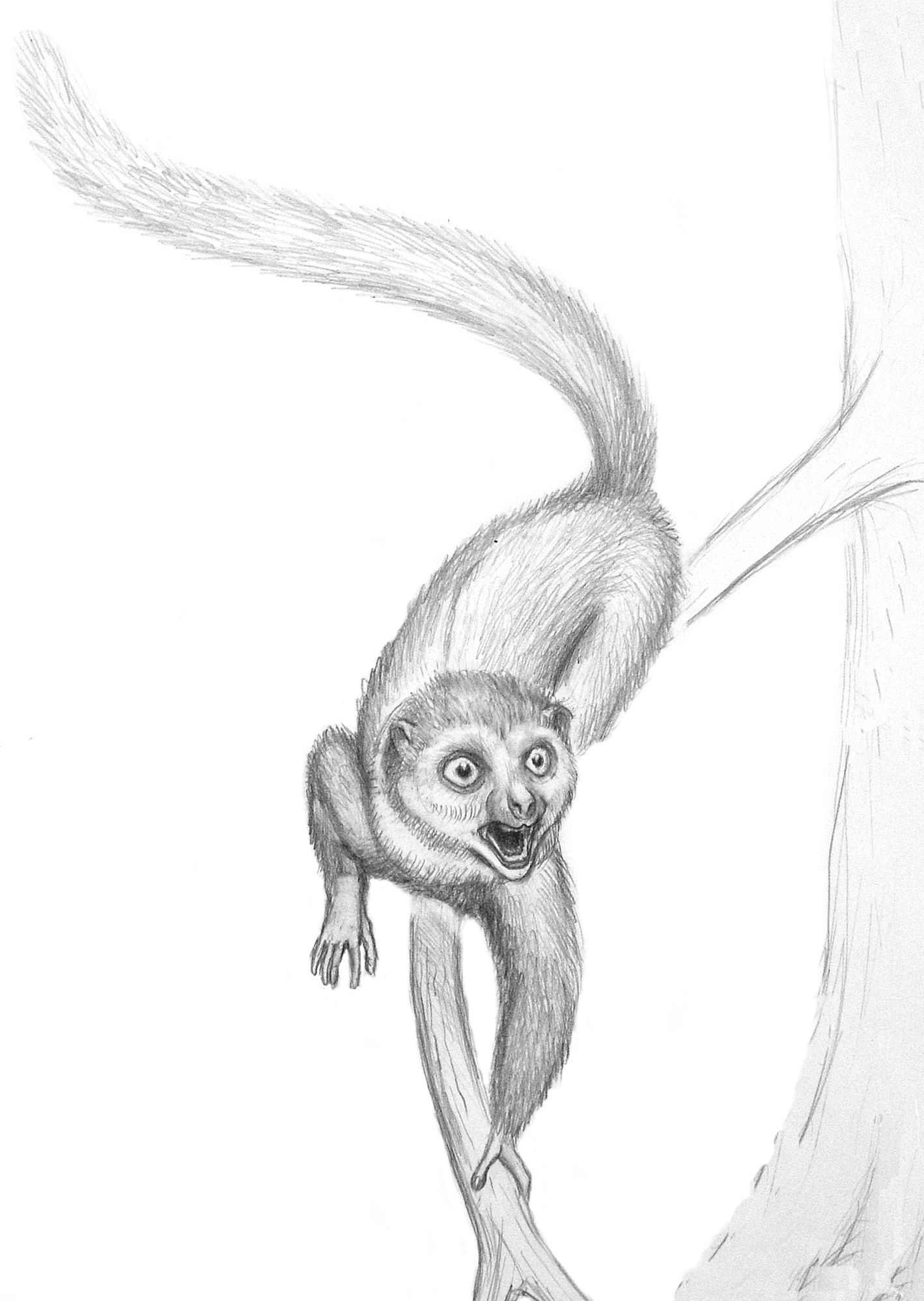 Life restorations of Darwinius masillae n. gen., n. sp. Sketches are by Bogdan Bocianowski.